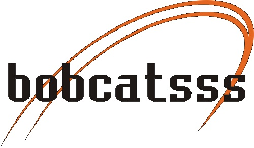 The logo for the BOBCATSSS Conference